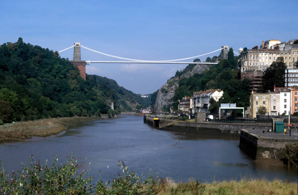 Clifton Suspension Bridge, seen from a sliproad off Brunel Way near Hotwells (larger version). I (rbrwr) took this photo and hereby release it under the GFDL. Something went seriously strange when I uploaded this...